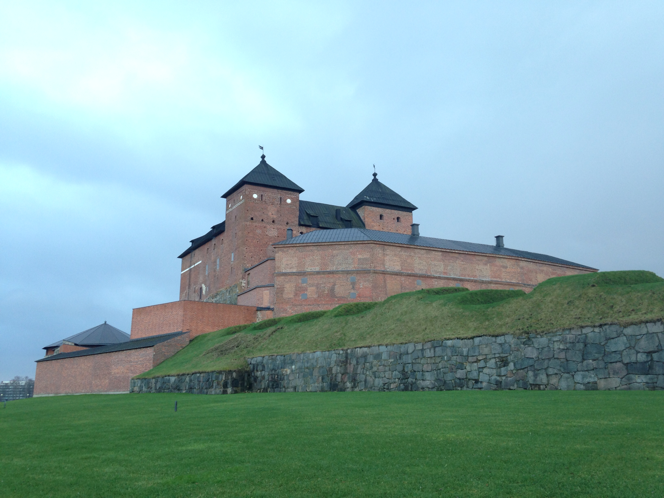 Häme Castle, 2013.